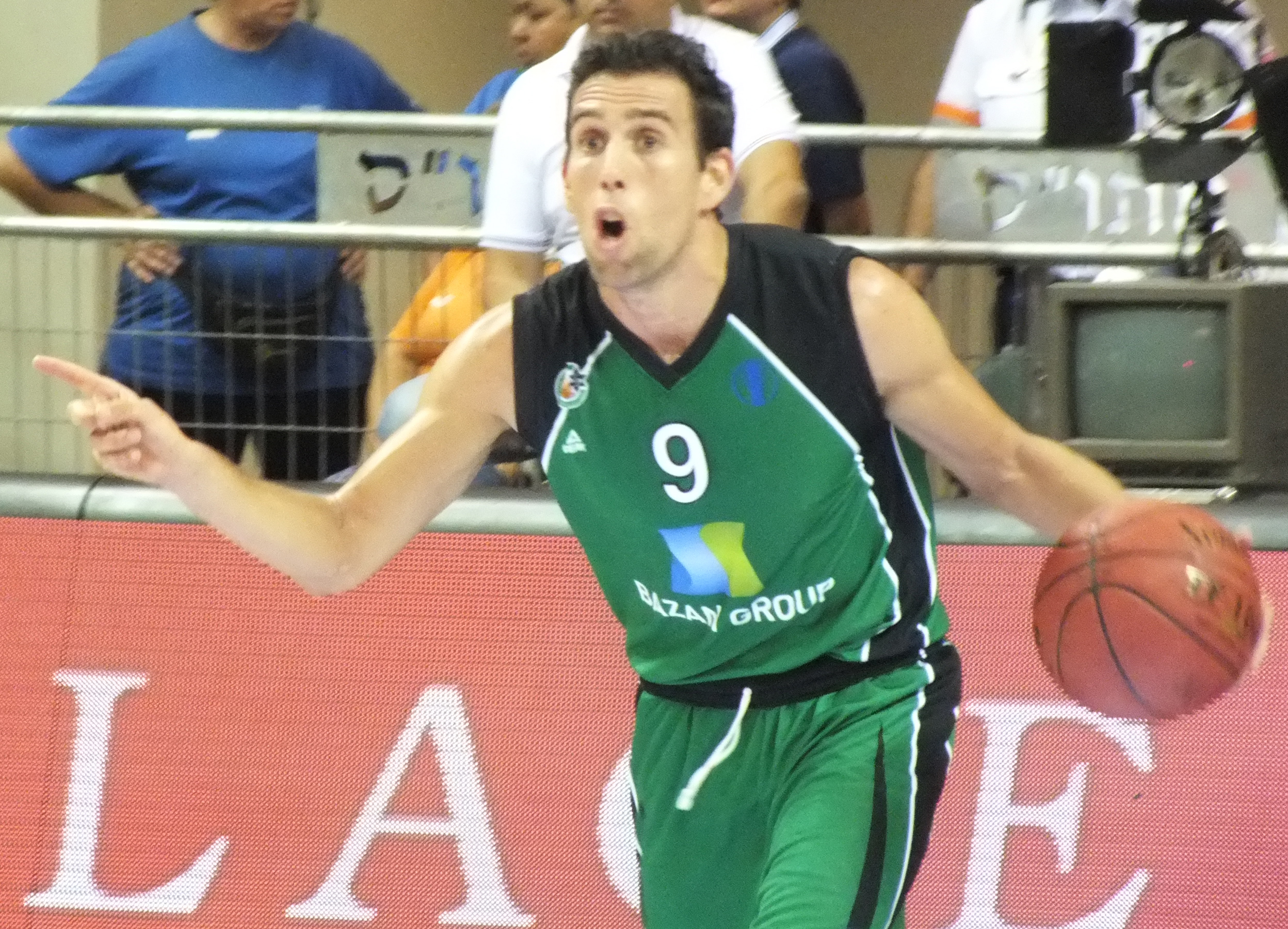 Player for the Greens in the 2013/14 season.